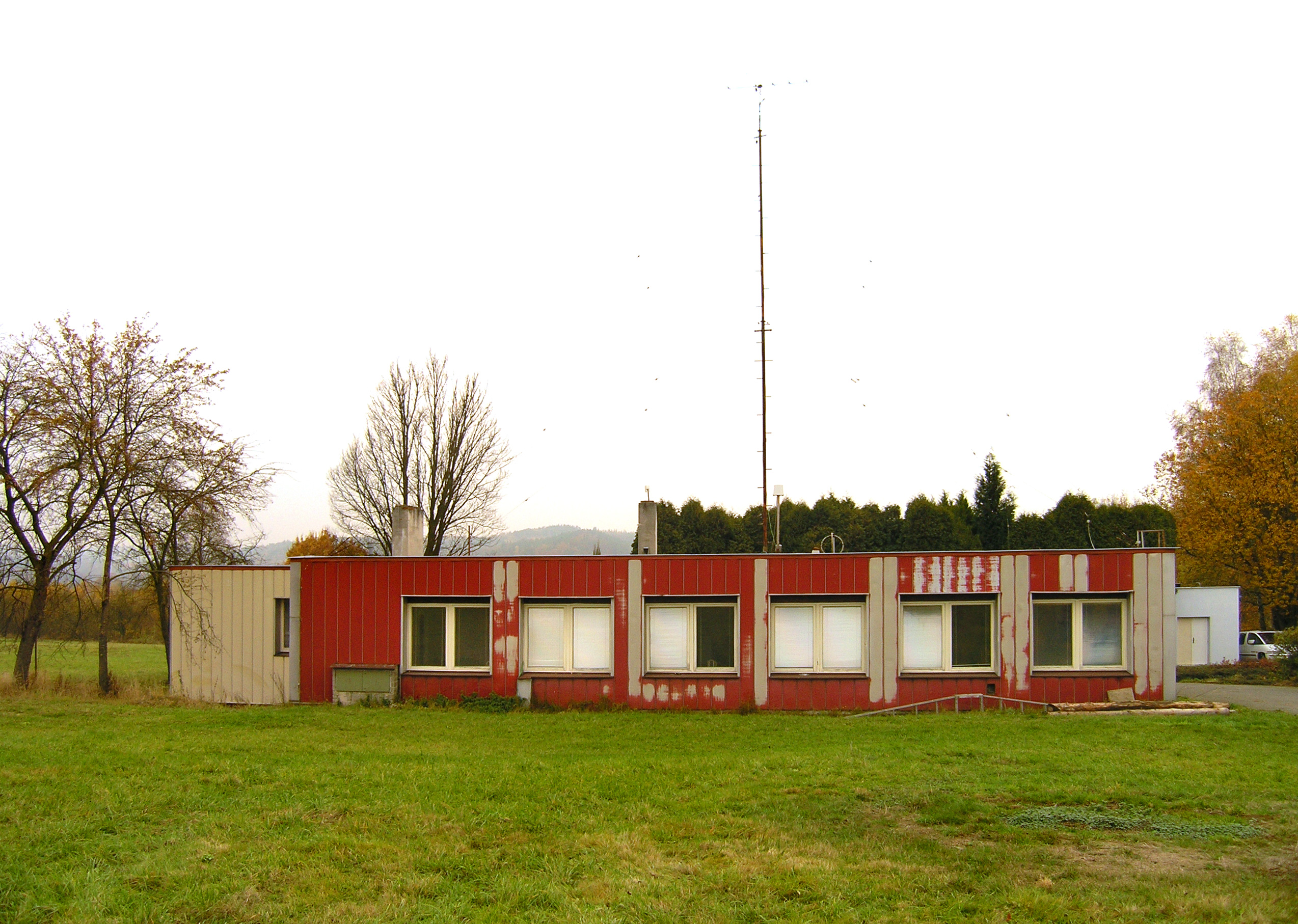 Observatory and Satellite Telemetry Station in Panská Ves village, part of Dubá town, Czech Republic. Institute of Atmospheric Physics Academy of Sciences of the Czech Republic.